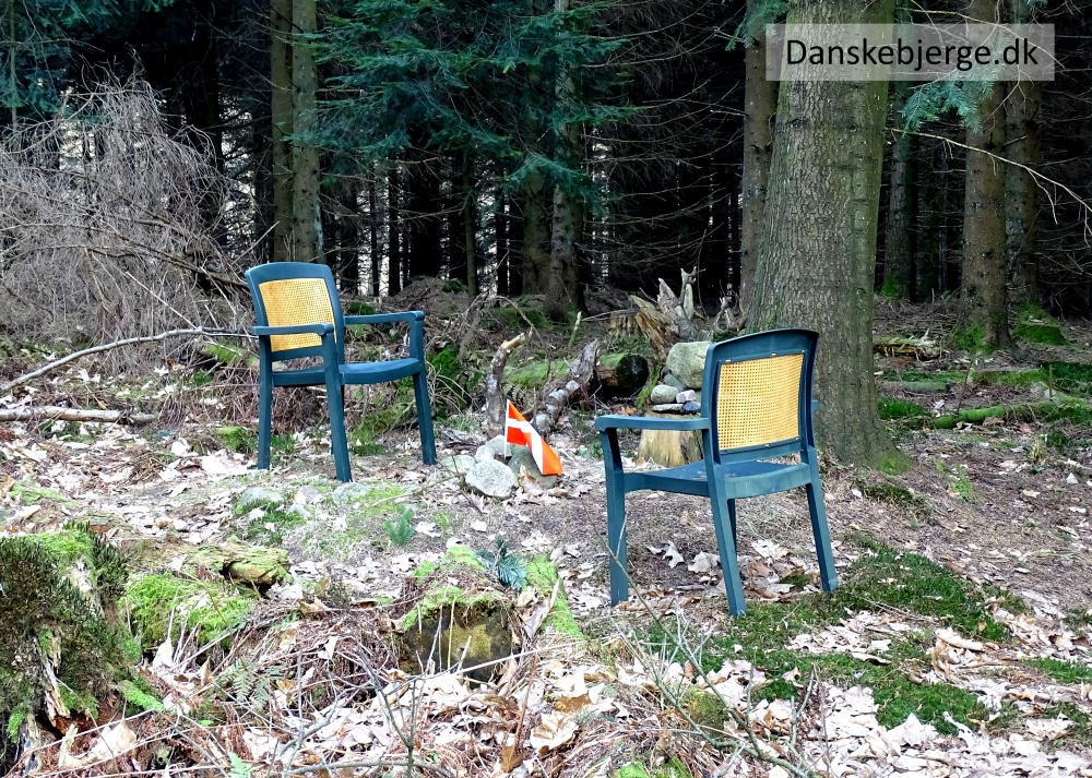 The top of the location named Kobanke, at 122.9 meters above sea-level.